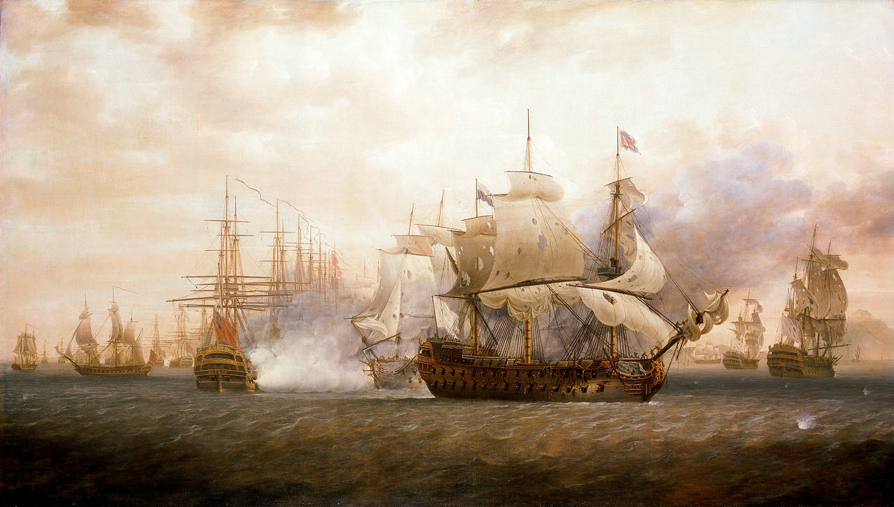 Hood's anchored fleet repels De Grasse at the Battle of Frigate Bay off St Kitts January 26, 1782